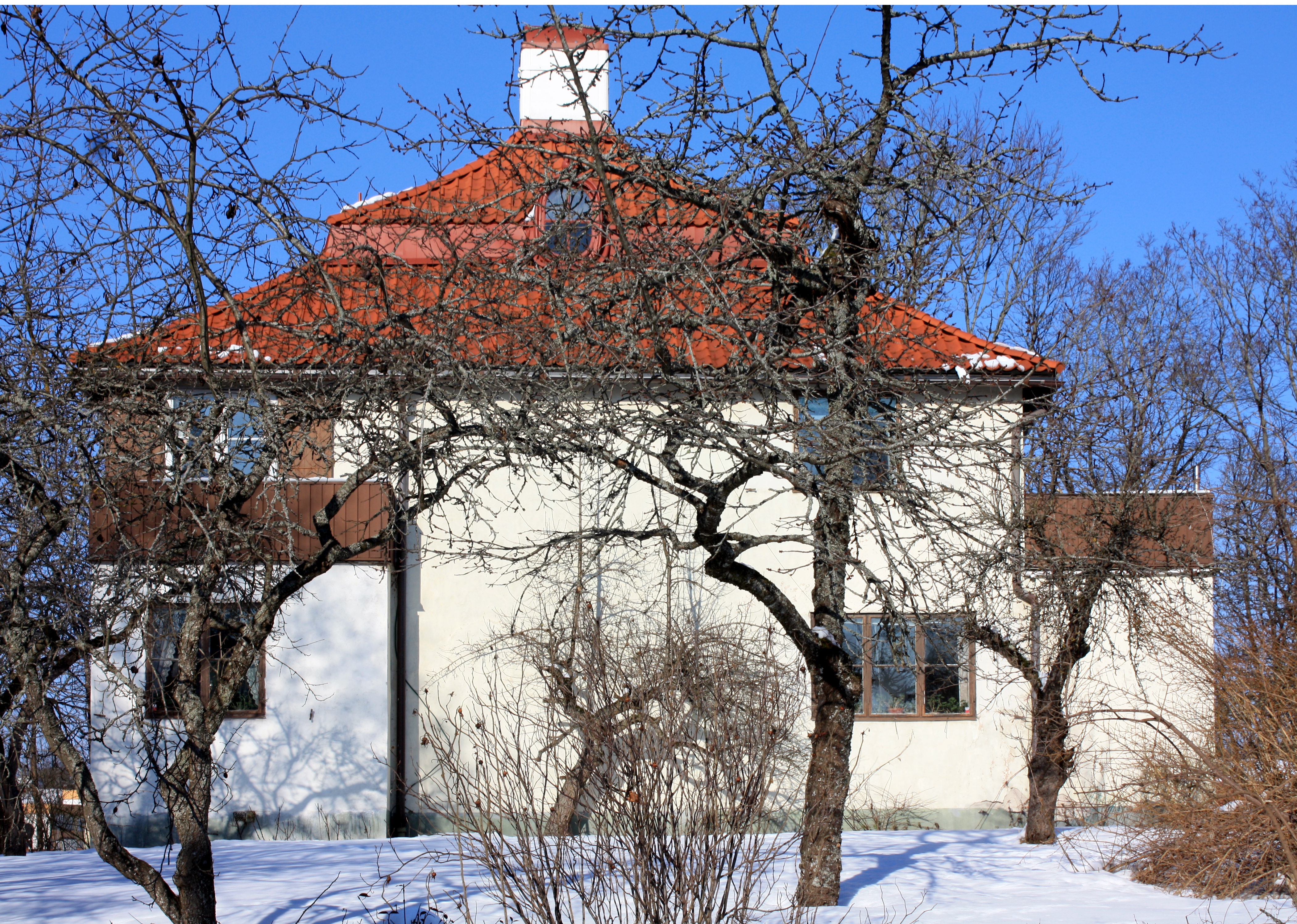 Photograph (2013) of Villa Sturegården, Nyköping, by Swedish architect Erik Gunnar Asplund, 1913.